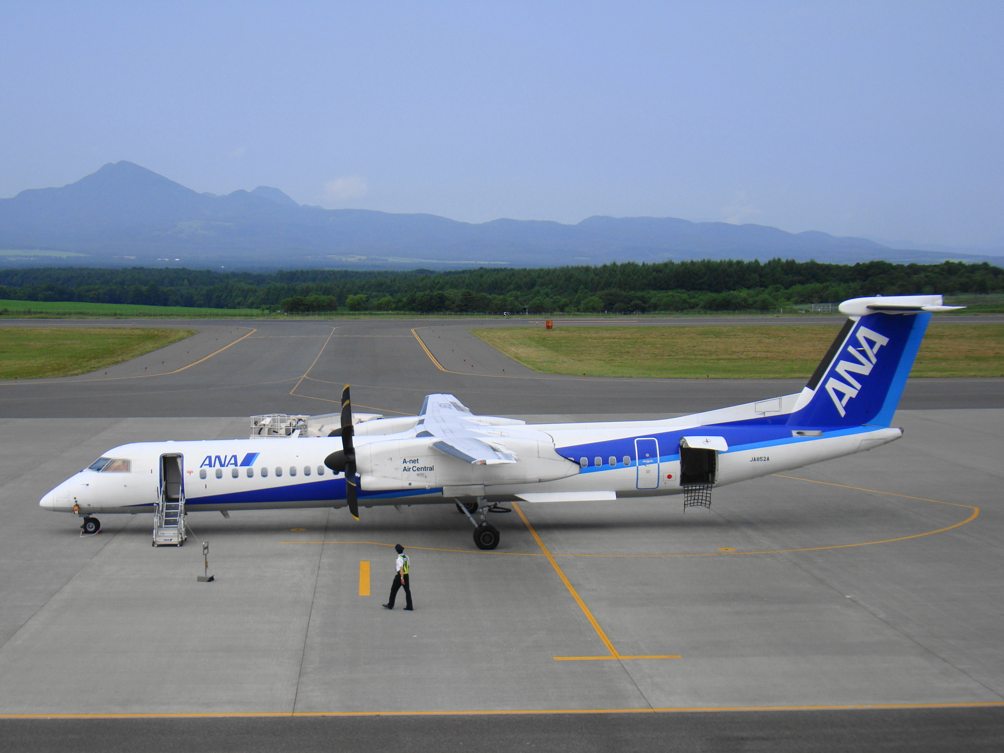 All Nippon Airways(Air Nippon Network) Bombardier Dash8 Q400 JA852A